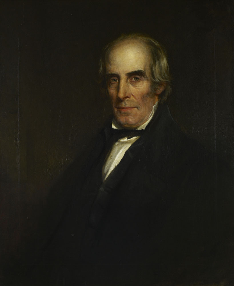 Portait of Thomas Thomson (1768-1852) Edinburgh), Scottish advocate and antiquarian.